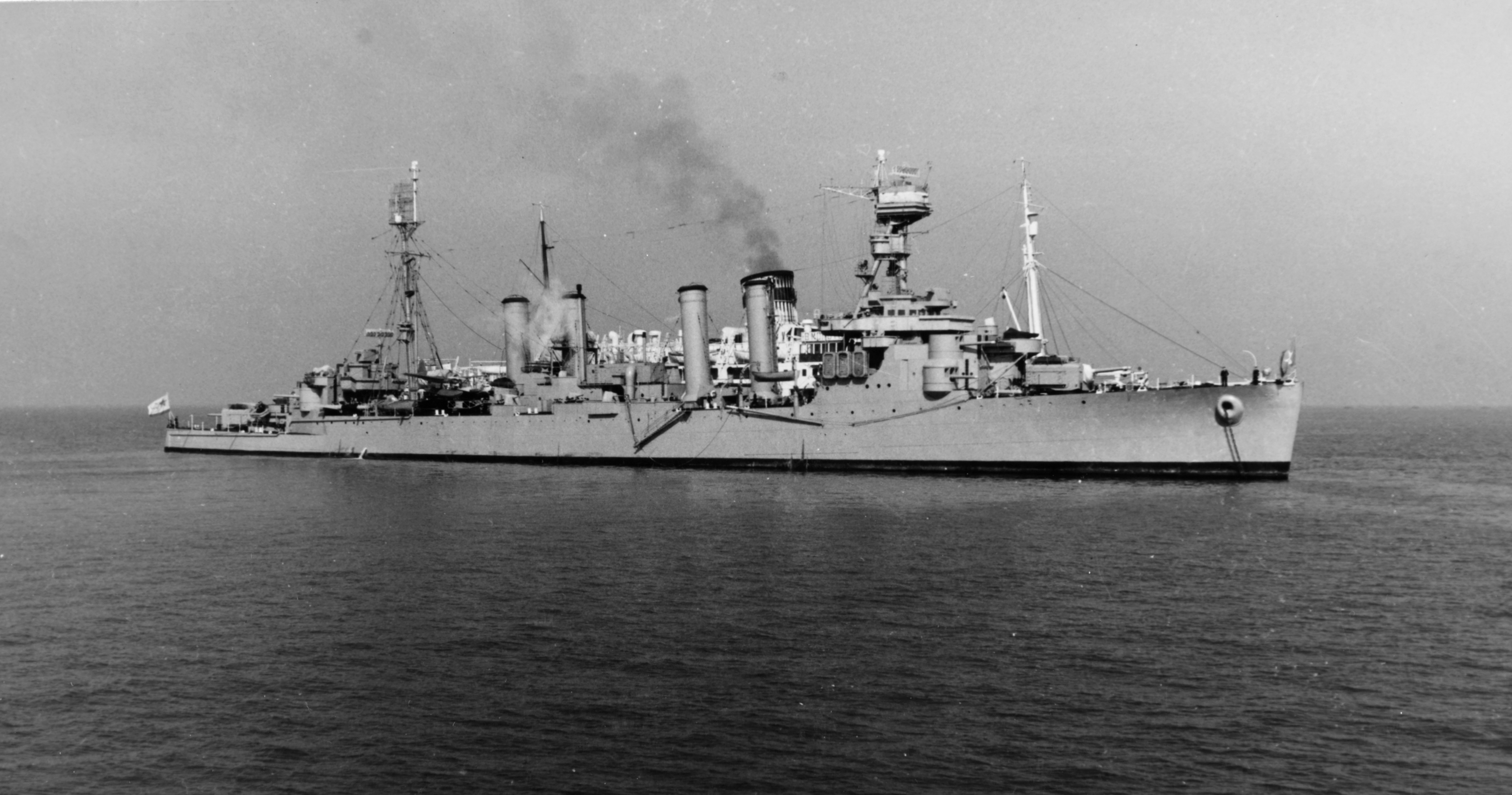 The Soviet light cruiser Murmansk (formerly USS Milwaukee (CL-5)) alongside the Soviet passenger steamer Viacheslav Molotov, off Lewes, Delaware (USA), on 15 March 1949, just prior to her return to U.S. control. The Molotov returned the cruiser's crew to the Soviet Union.